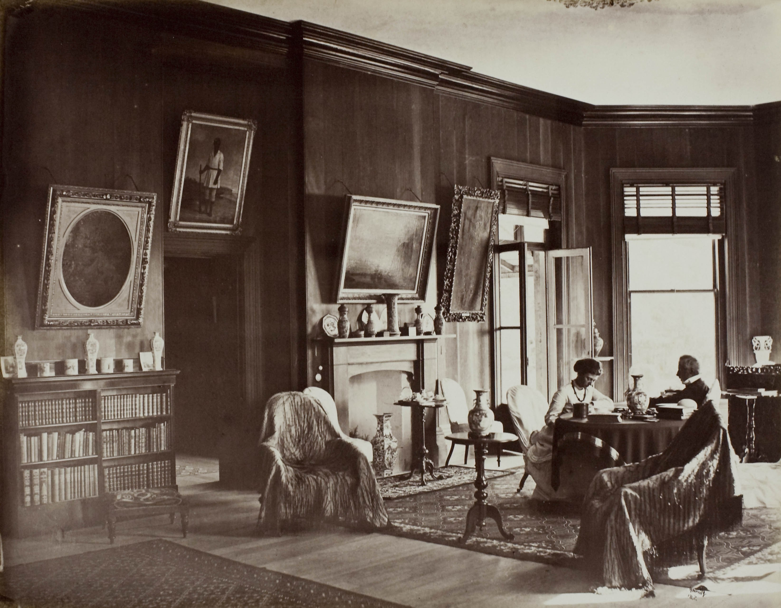 Sir George Grey and Annie Thorne George, Mansion House, Kawau Island. Photograph Album Collection no. 88, Sir George Grey Special Collections, Auckland City Libraries